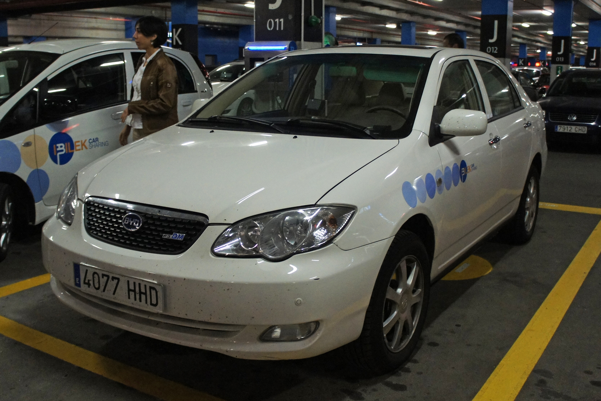 BYD F3DM plug-in hybrid part of iBilek carsharing service fleet in Bilbao, Spain